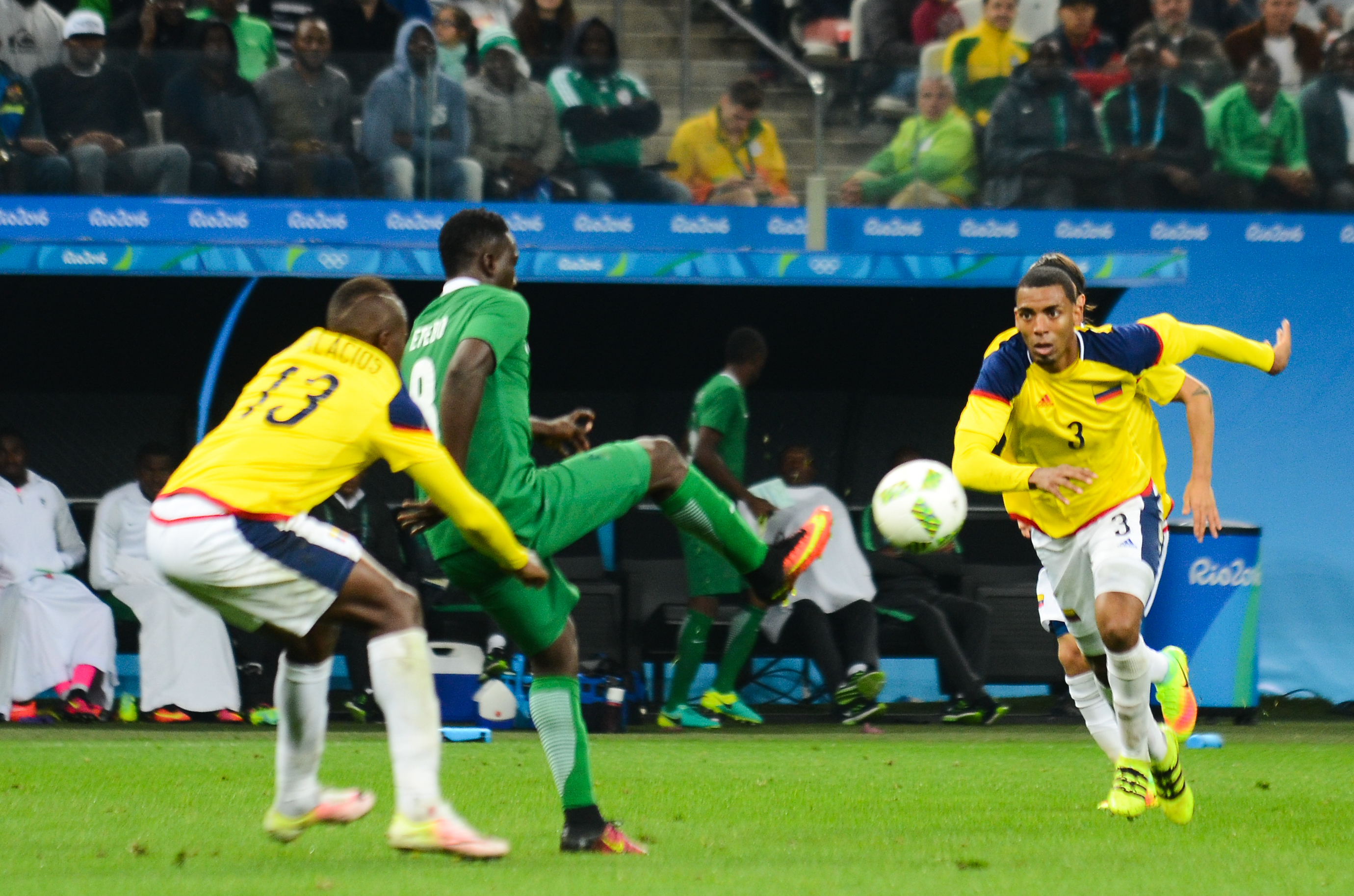 São Paulo - Colômbia vence a Nigéria por 2x0 na Arena Corinthians (Rovena Rosa/Agência Brasil)